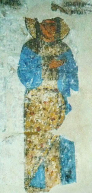 Medieval fresco depiction of Borena, wife of King Bagrat IV of Georgia